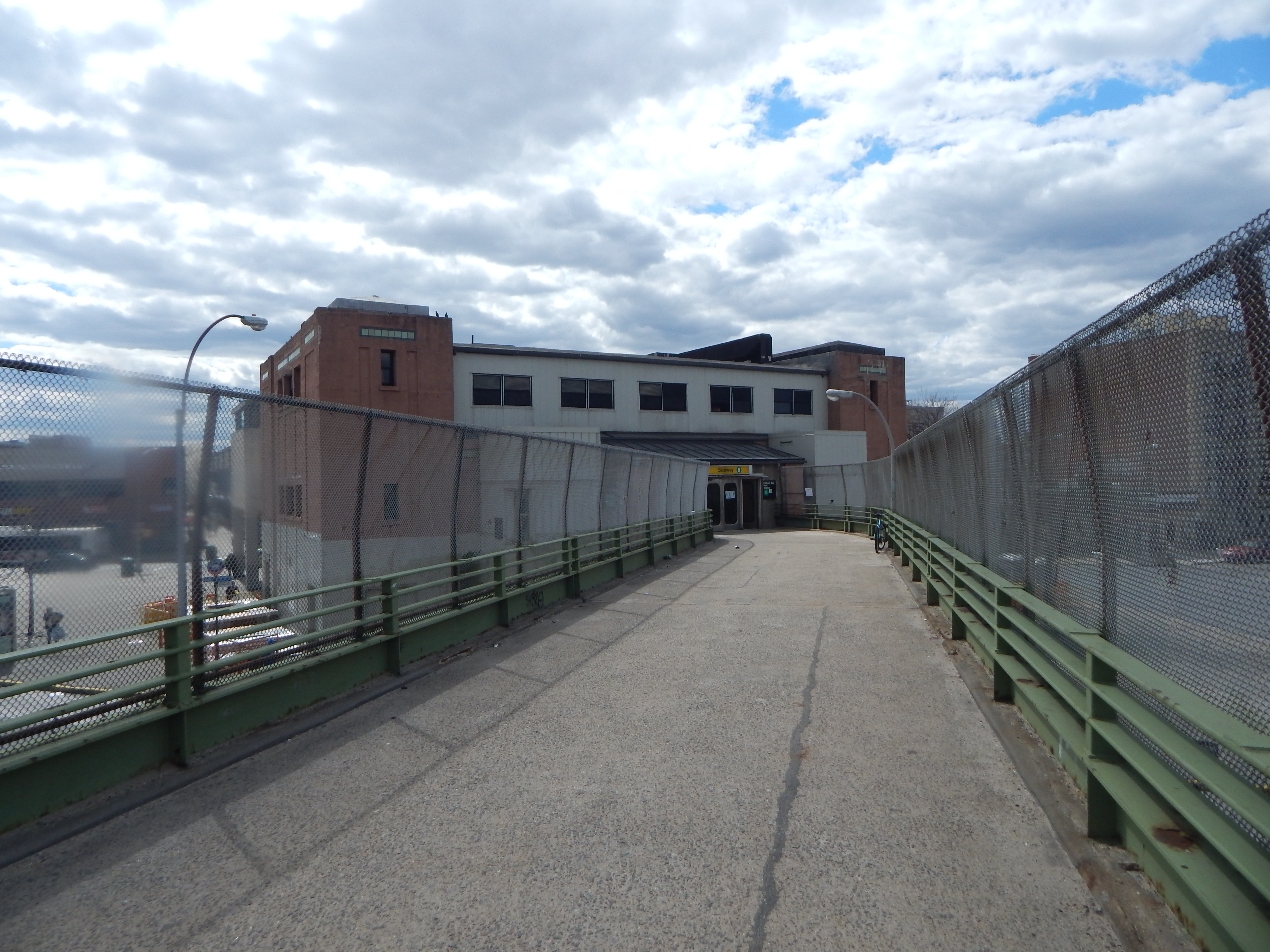 Pelham Bay Park, Bronx, New York